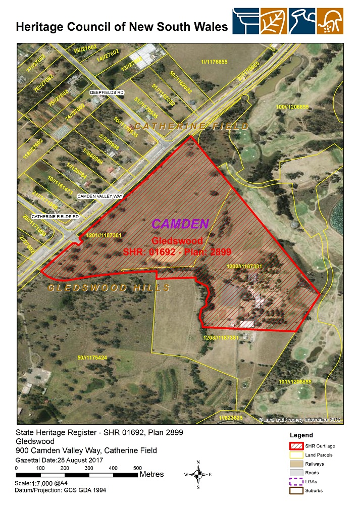 Gledswood: Curtilage Revision - 30 Aug 2017